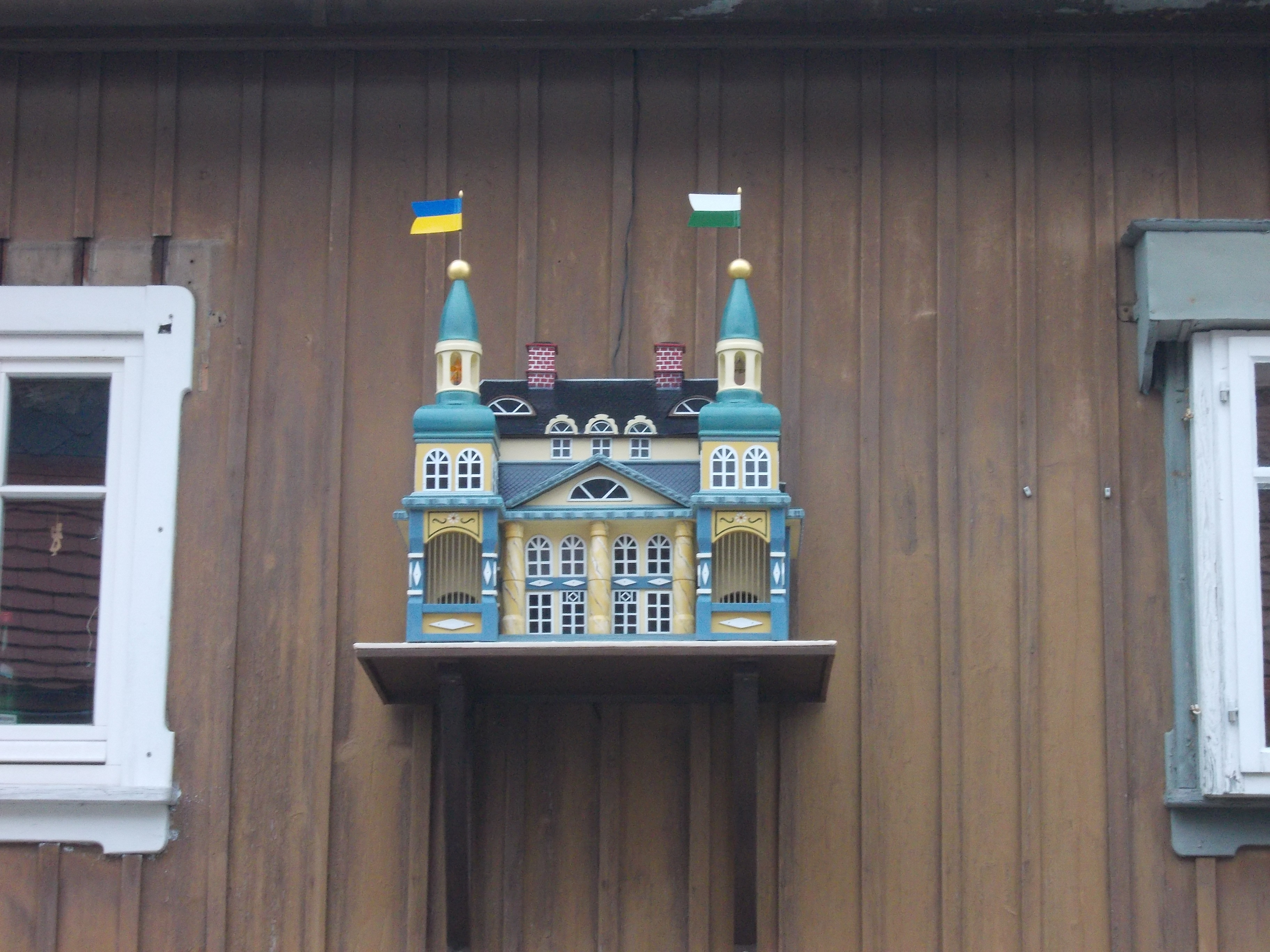 Quail house at an Umgebindehaus in Hörnitz (Bertsdorf-Hörnitz, Görlitz district, Saxony)